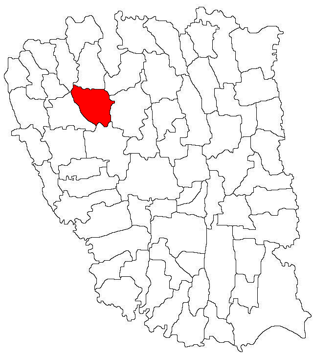 Limits of Negrilesti Commune in Galati County